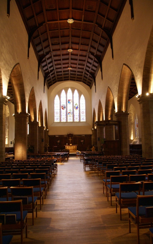 Greyfriars' Kirk, Edinburgh, Scotland. Interior, looking east.